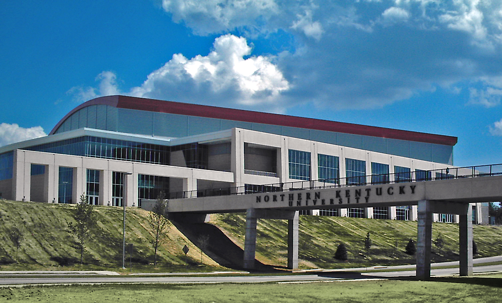 Northern Kentucky University arena and skywalk signage.